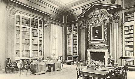 View of the inner "library" of the Widener Memorial Rooms, Harry Elkins Widener Memorial Library, Harvard University